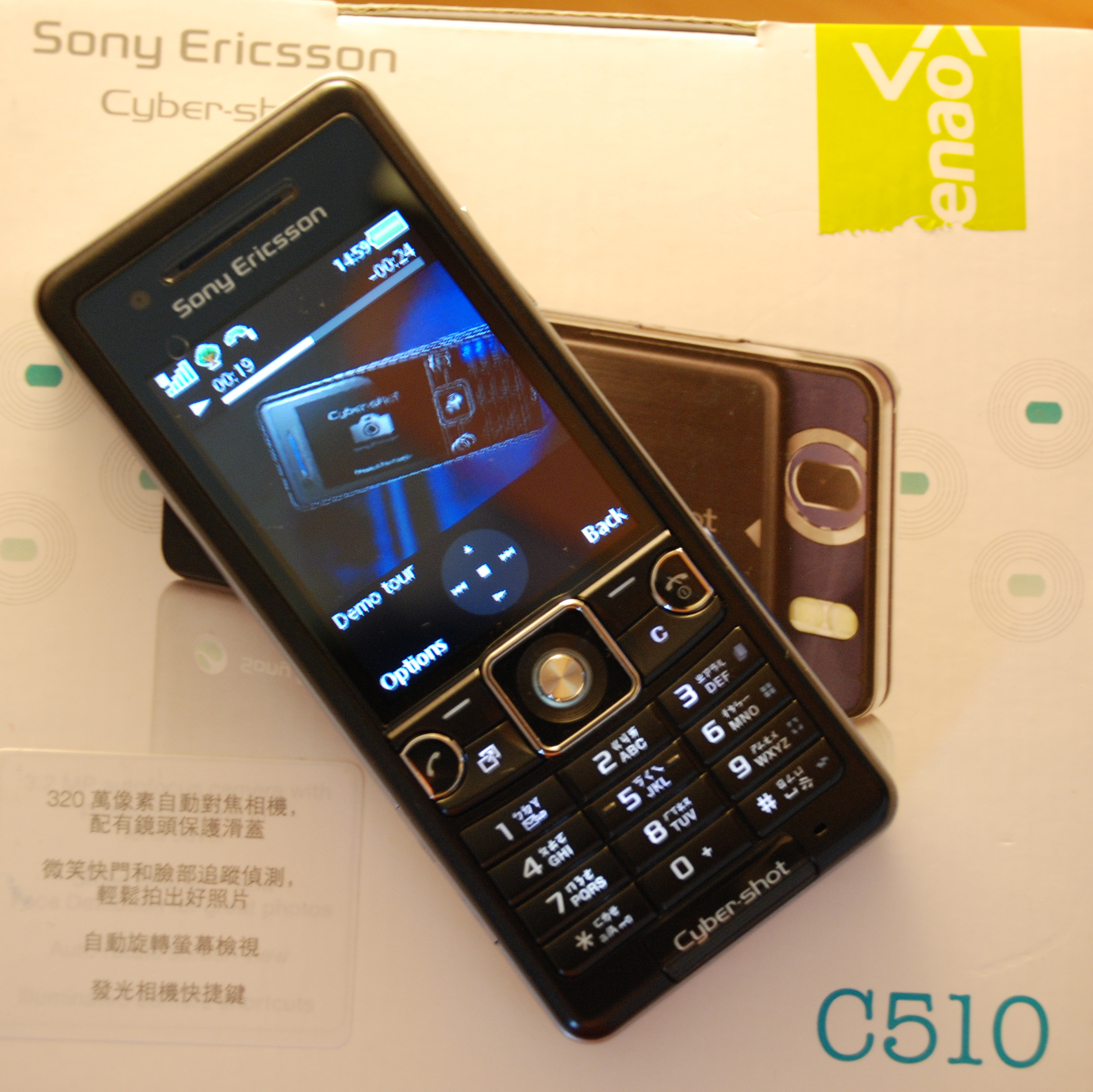 Sony Ericsson C510